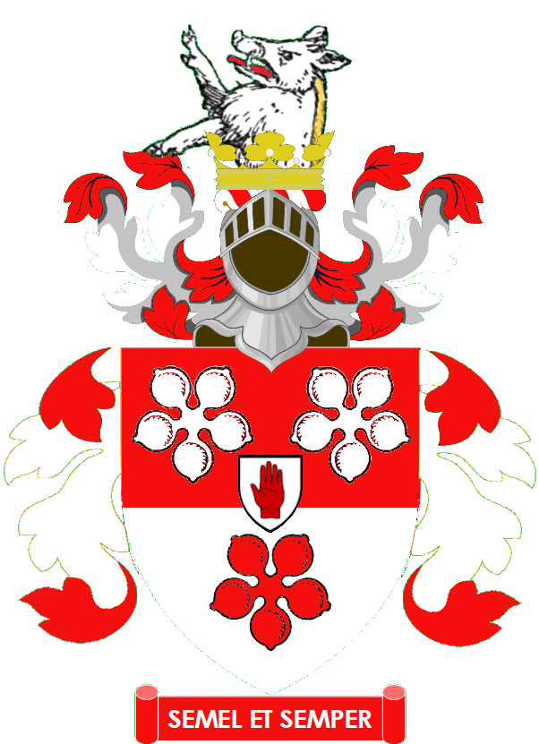 The armorial achievement of the Swinburne baronets of Capheaton